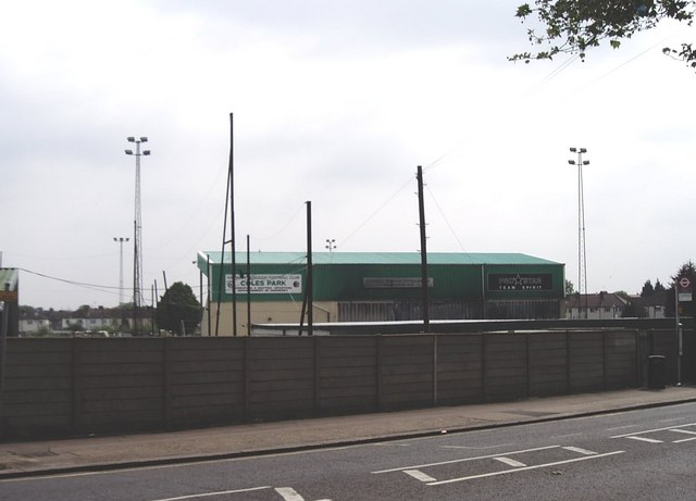 Coles Park football ground, White Hart Lane, Tottenham. Despite being called 'White Hart Lane', the Tottenham Hotspur ground is not geographically in White Hart Lane at all but in nearby Park Lane TQ3491. But football is nevertheless played in the real White Hart Lane at Coles Park where the Haringey Borough Football club has its ground.